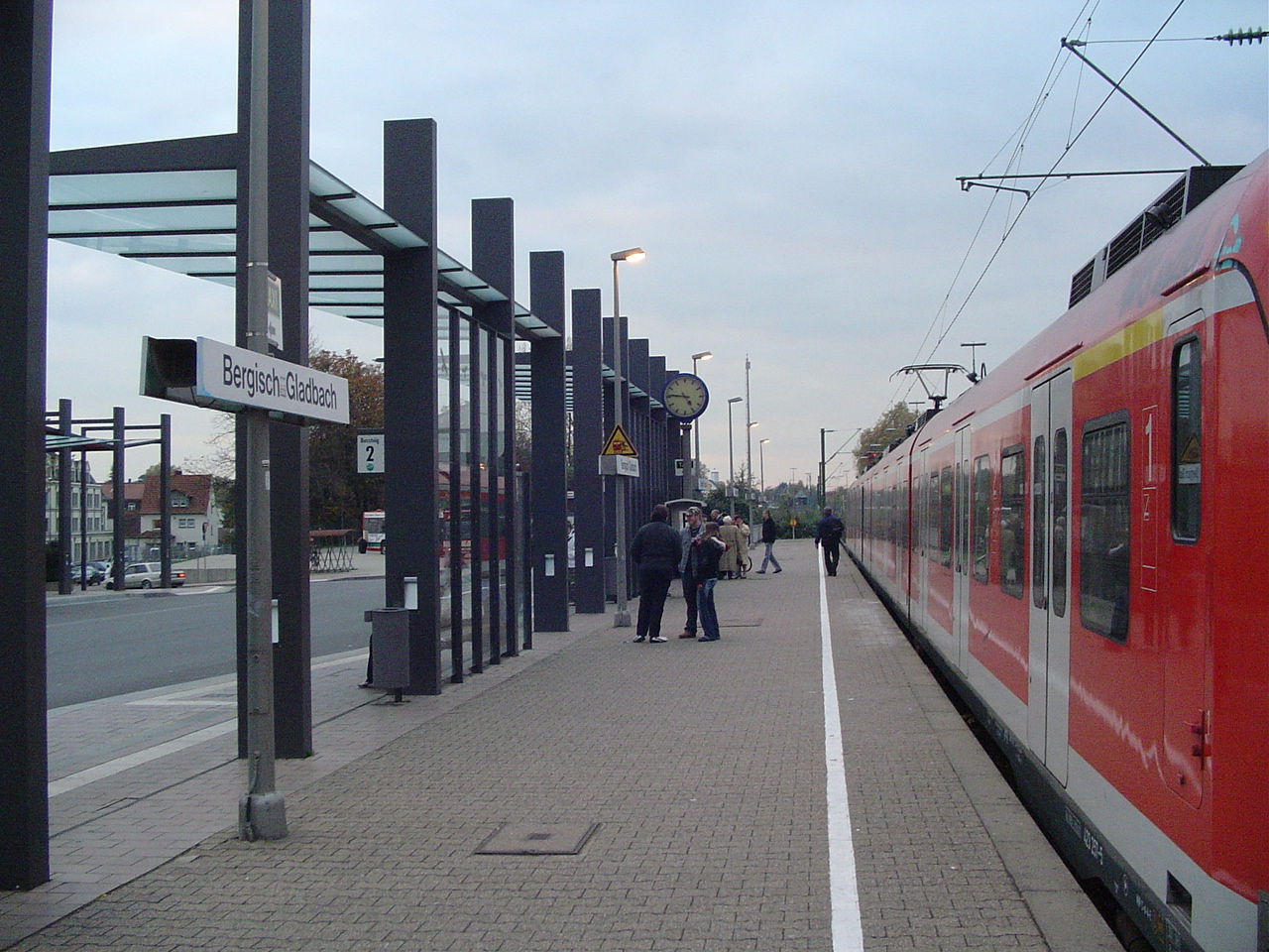 Train station in Bergisch Gladbach, Germany